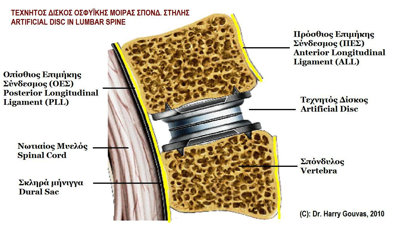 Artificial disc in lumbar spine